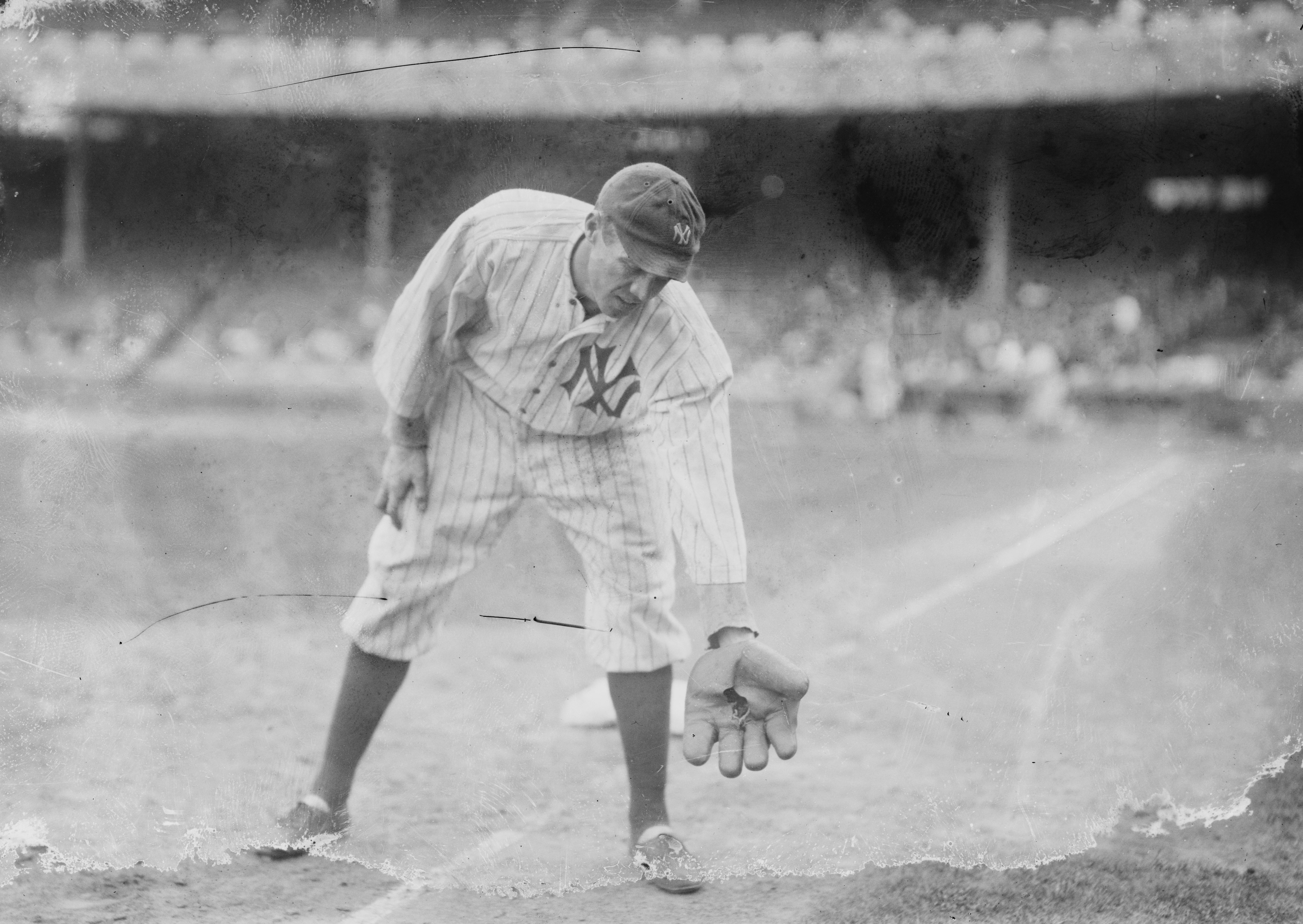 Title: Paddy Baumann, New York AL (baseball) Abstract/medium: 1 negative : glass ; 5 x 7 in. or smaller.